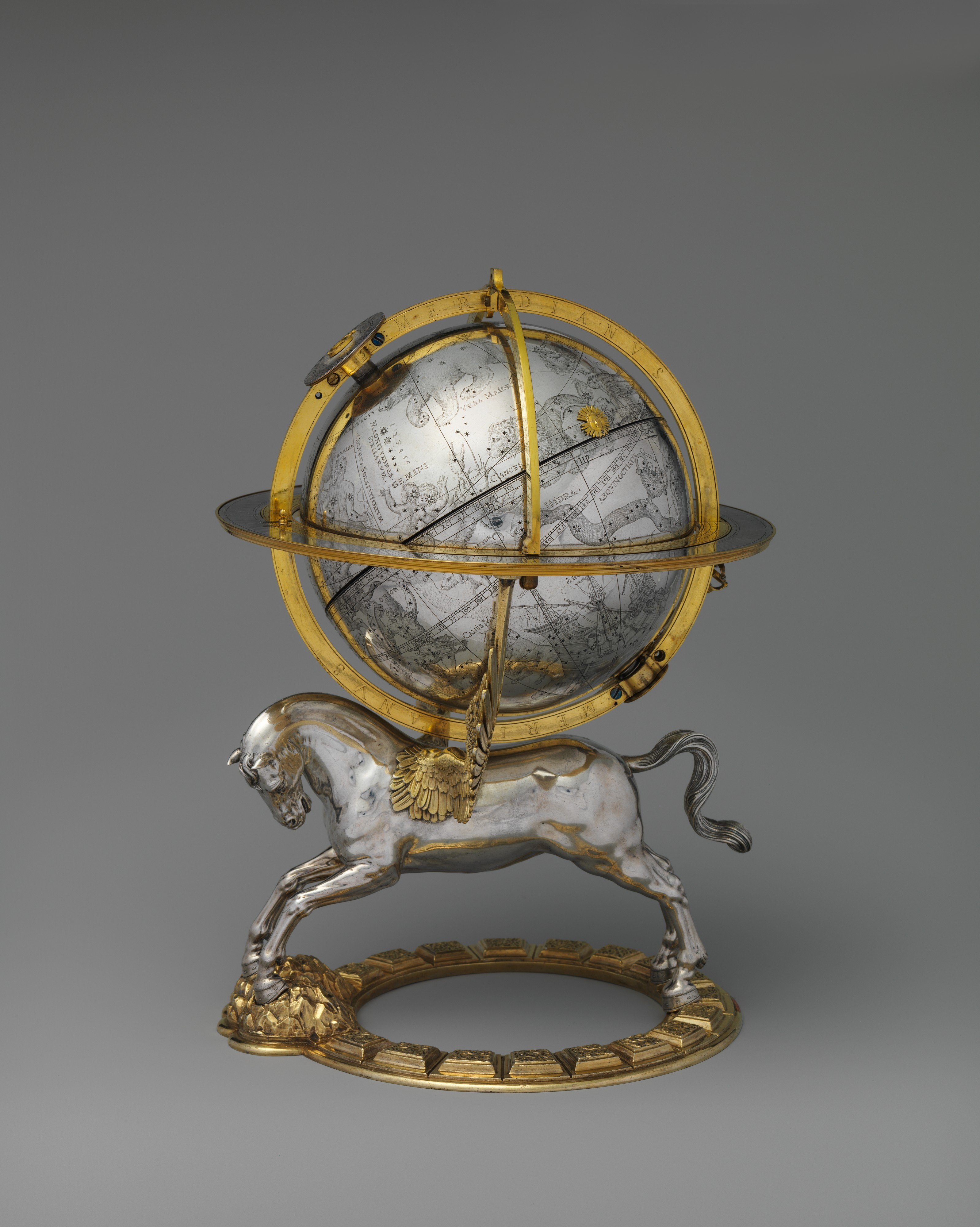 Austrian, Vienna; Celestial globe with clockwork; Metalwork-Silver In Combination